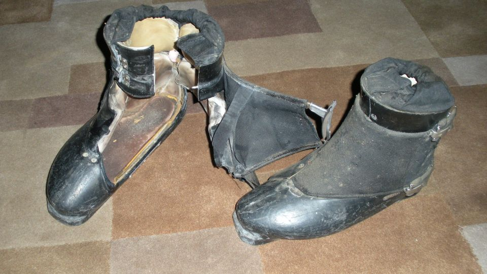 Well worn pair of Rosemount ski boots from circa 1968.